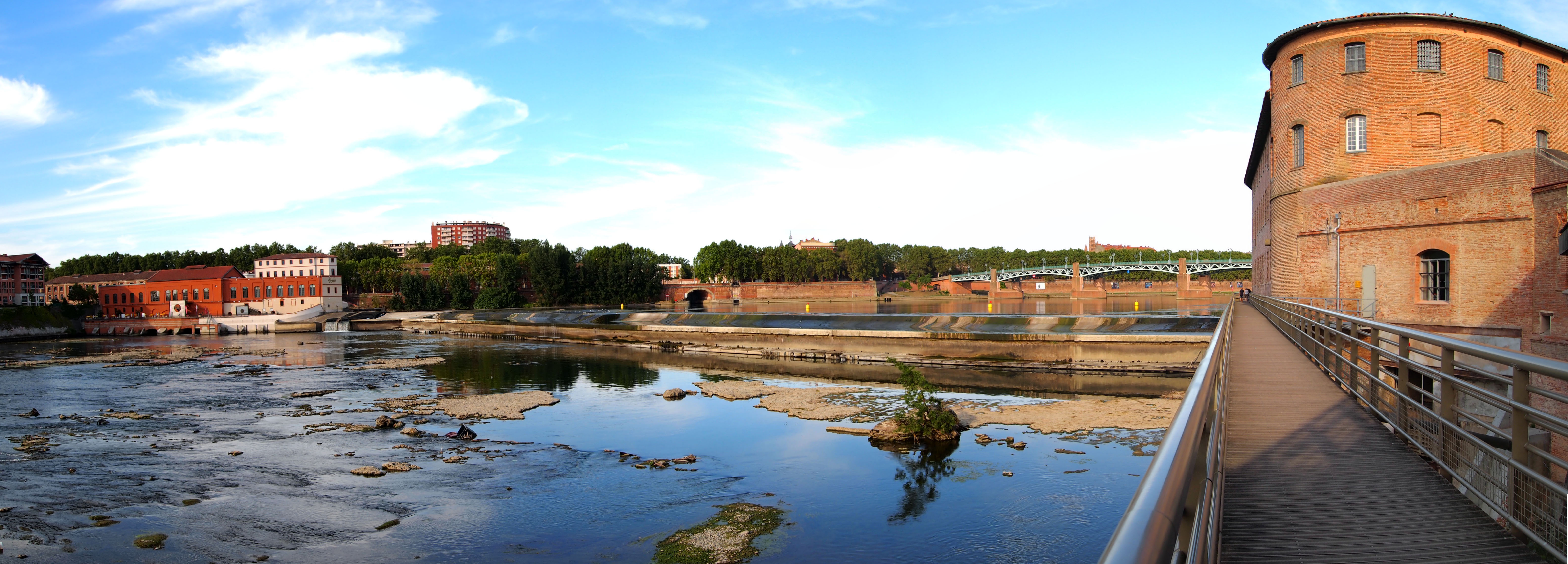 Garonne river in Toulouse. View from the southern bank. The green bridge is Pont Saint-Pierre.